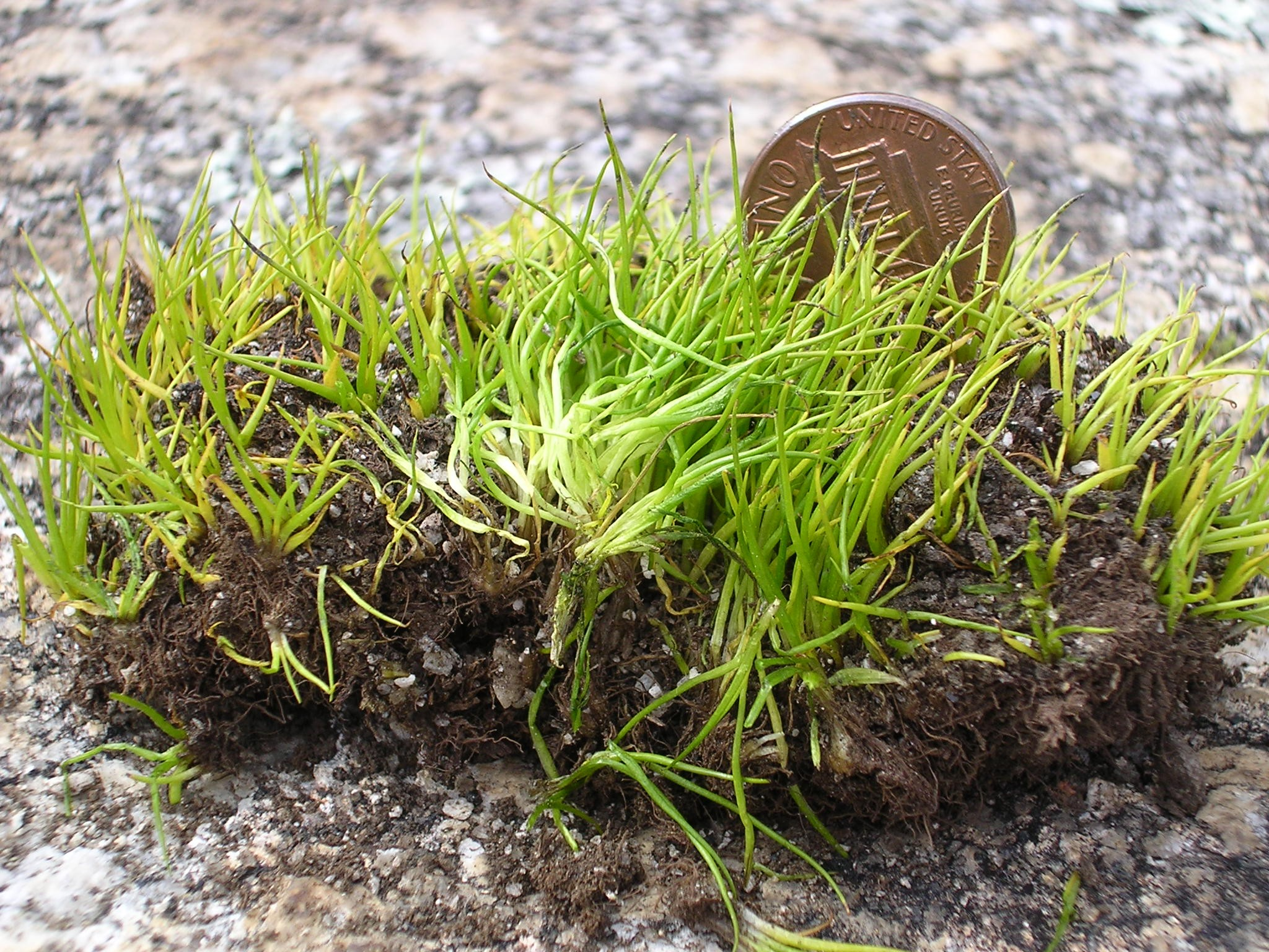 Isoetes tegetiformans, on granite outcrop in eastern half of Georgia Piedmont